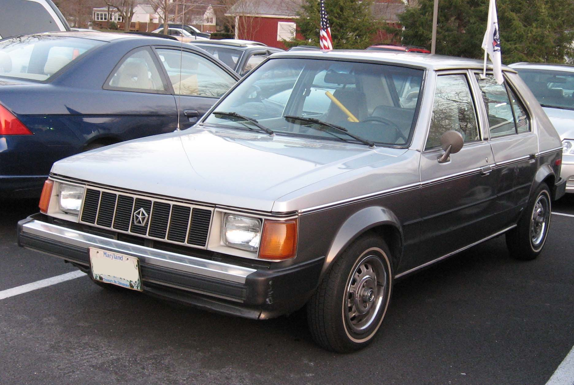 Plymouth Horizon photographed in USA.